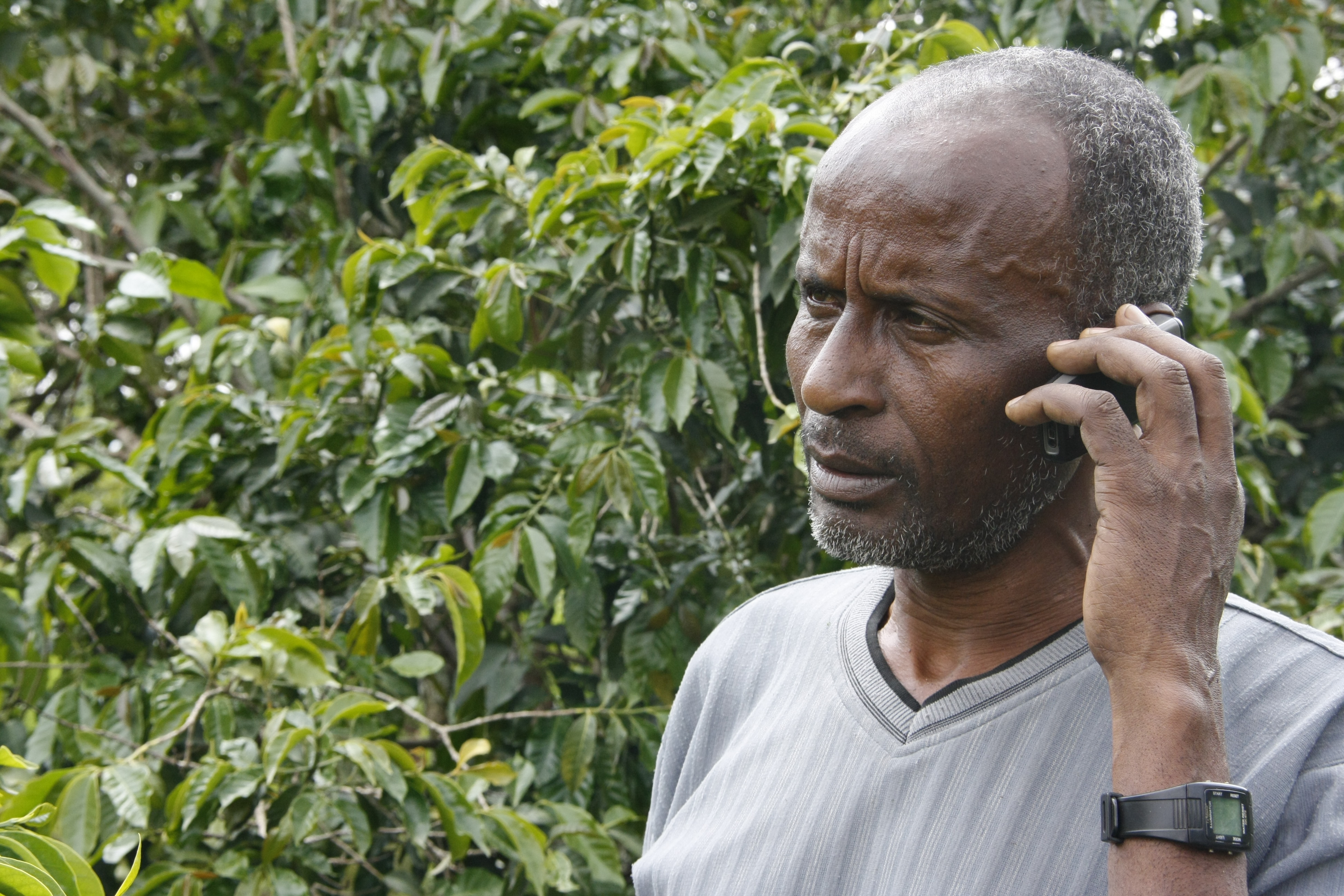 Coffee farmer Feleke Dukamo checks the latest coffee prices. The Ethiopia Commodity Exchange's new price information line already gets 40,000 calls a day from farmers like Feleke. Because he knows the price coffee is trading for in Addis Ababa, Ethiopia's capital, Feleke can drive a hard bargain with his buyers. The result? As Feleke says: "In the three years since the ECX was set up, the price I get for my coffee has increased nine-fold." DFID supported two leading research institutes who were tasked with finding a solution to Ethiopia's inefficient food and commodity markets. The UK aid funded research recommended setting up a commodity exchange and helped to design the warehousing, logistics and payment systems that the exchange uses today. The exchange helps to boost exports and secure a better deal for farmers and consumers.